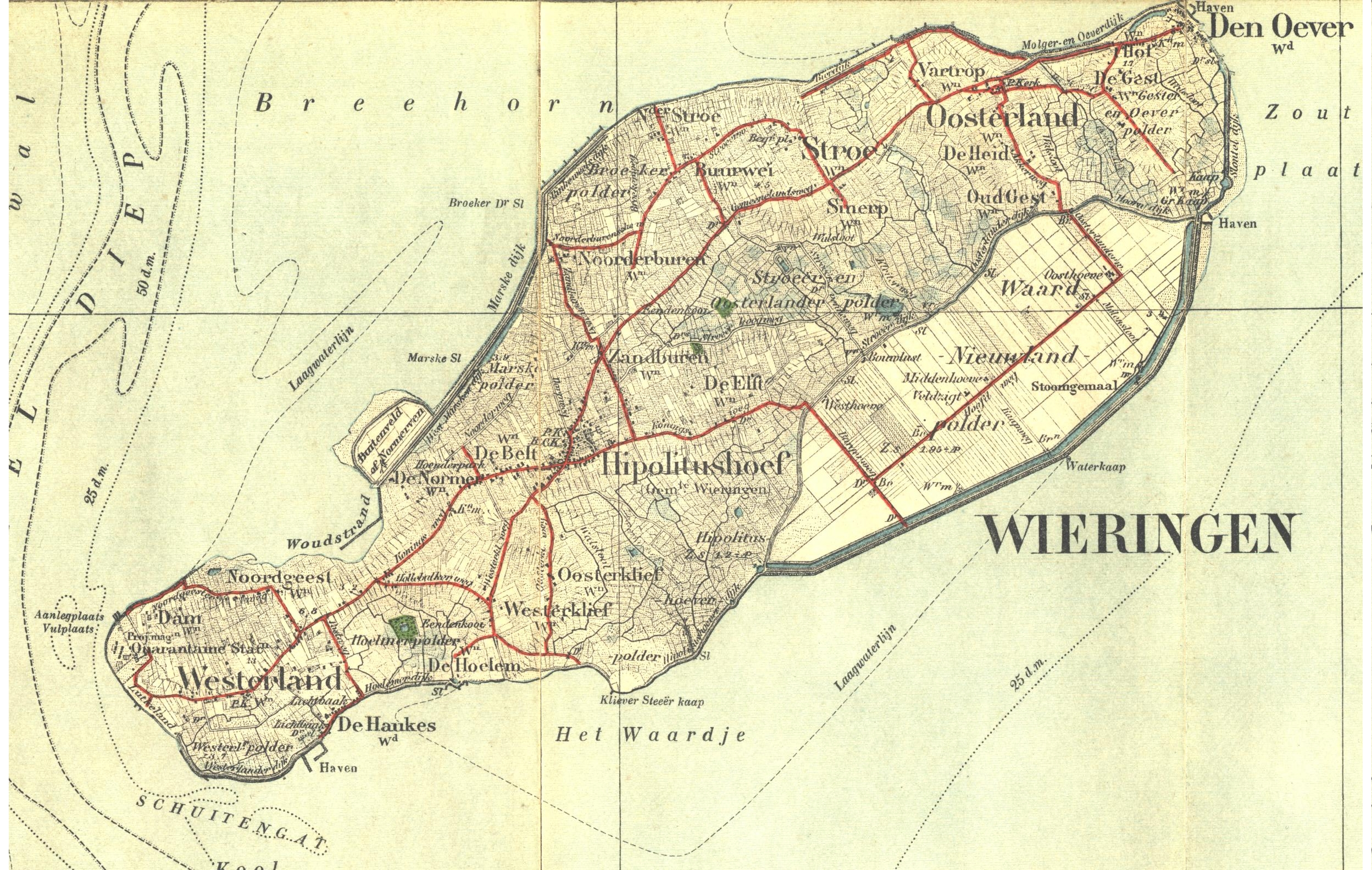 Wieringen, former island, North Holland province, Netherlands